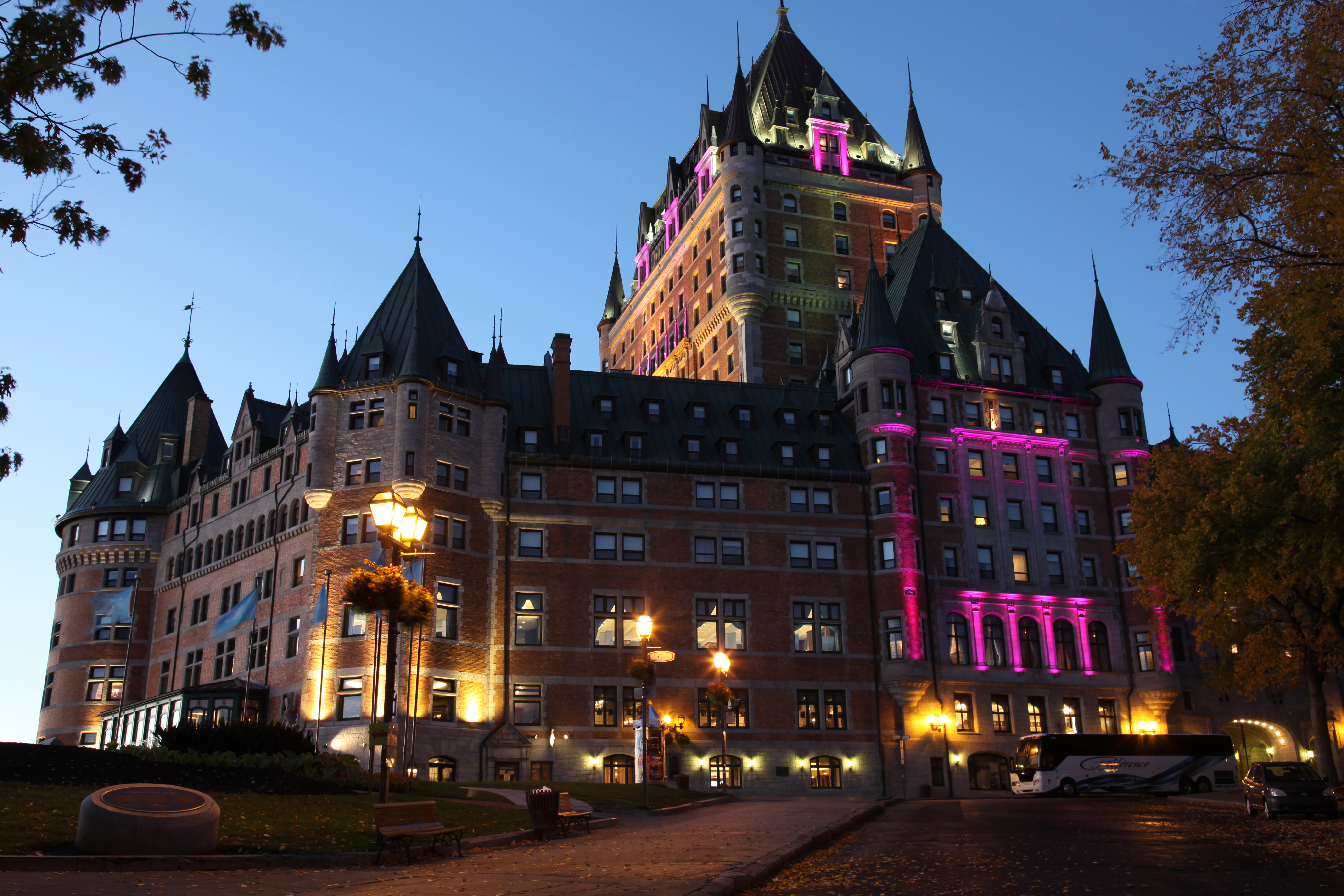 Fairmont Château Frontenac, very early in the morning. In our days à 4-stars-establishment, built in 1892 to 1893, the hotel was the first of many Châteaux-style hotels, erected by Canada's railway companies. Enhanced by a magnificent site, the building recalls the romantic character of several of the 14th- and 15th-century châteaux, situated in France's Loire valley. Enlarged four times, the original design was adapted from these models by architect Bruce Price, who abandoned classical symmetry in favour of the picturesque eclecticism, which was very popular at the time. It has become the dominant landmark of Quebec City.